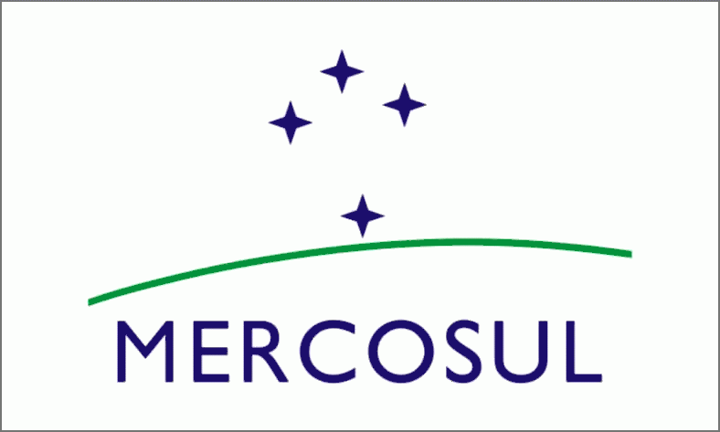 Flag of Mercosur in portuguese